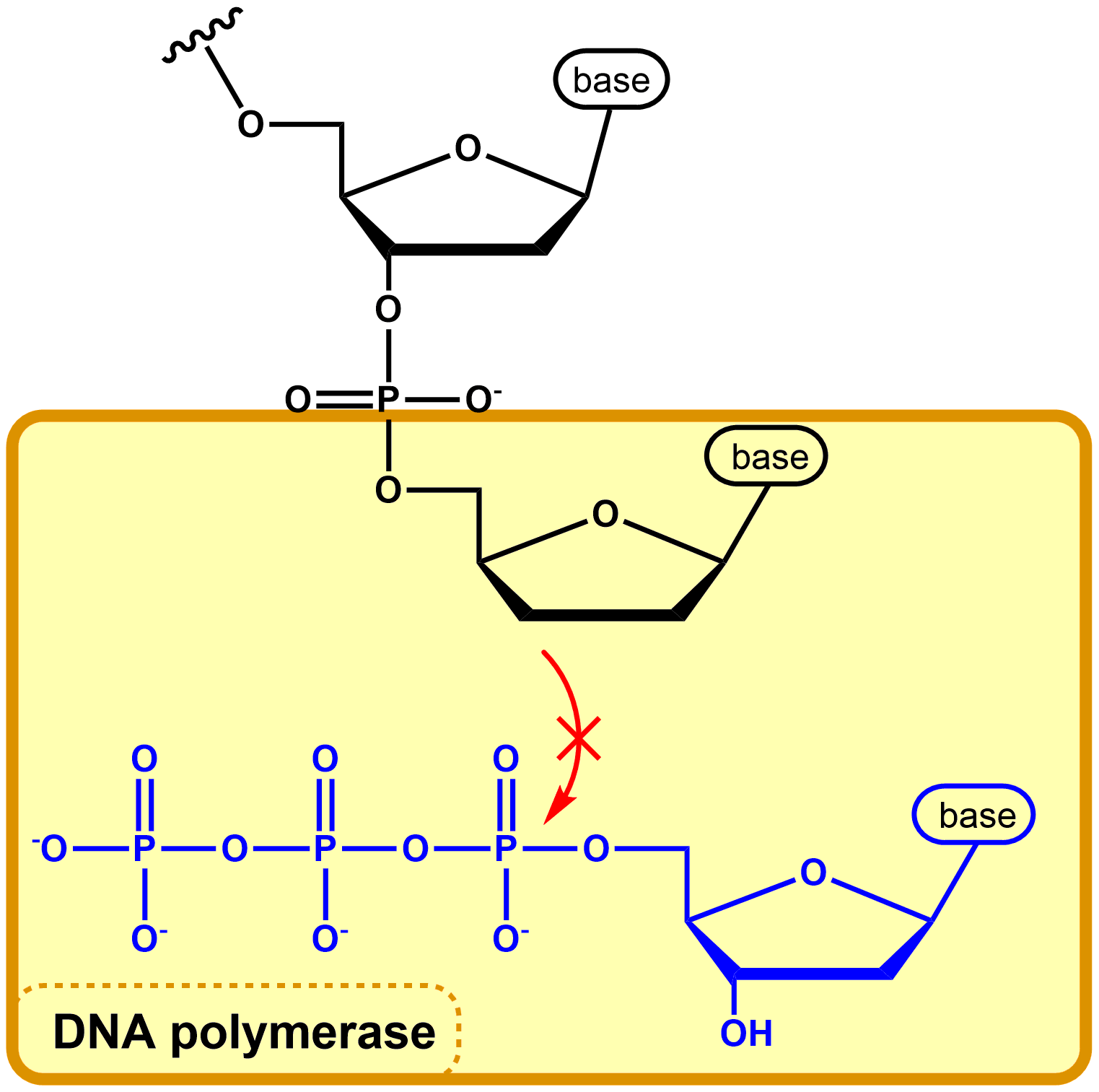 Dideoxy termination of DNA elongation